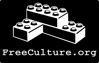 Author: Karen Rustad ( board member in 2006). A similar logo can be found at